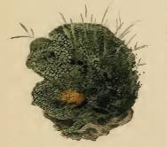 Stainton’s Natural History of the Tineina (1855–1873): Bryotropha affinis a piece of moss showing frass thrown out by the larva